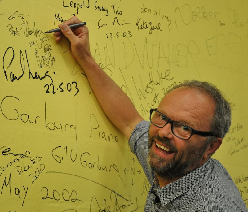 Robert_Llewellyn signs the wall at the Australian National University School of Music, 31st January 2013. Taken during an appearance at the 2013 Linux Conference Australia event, held at this venue. Other information I attended the Linux Conference event as a co-presenter of a session at the event with Robert Llewellyn. This photo of him signing the School Of Music Autograph wall was taken by me with his permission.